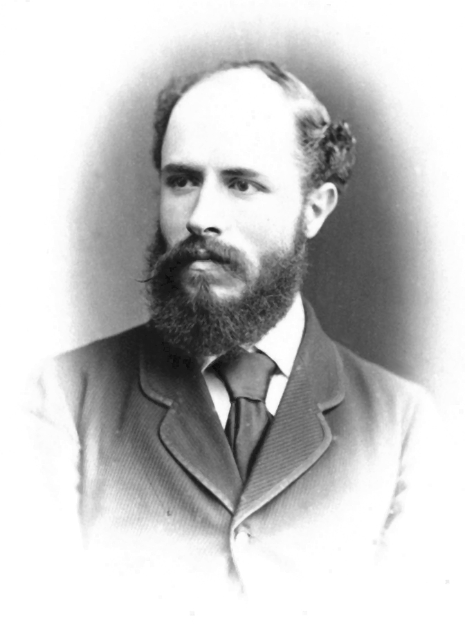 Professor James Wood-Mason (cropped and touched from original in National Library of New Zealand)